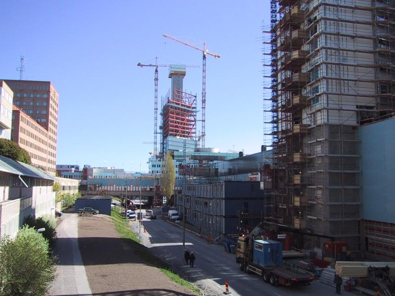 Kista, 2002-05-07 / hemgjord / GNU Photo: Stern Originally uploaded on sv: 17 februari 2004 kl.23.37 by Stern